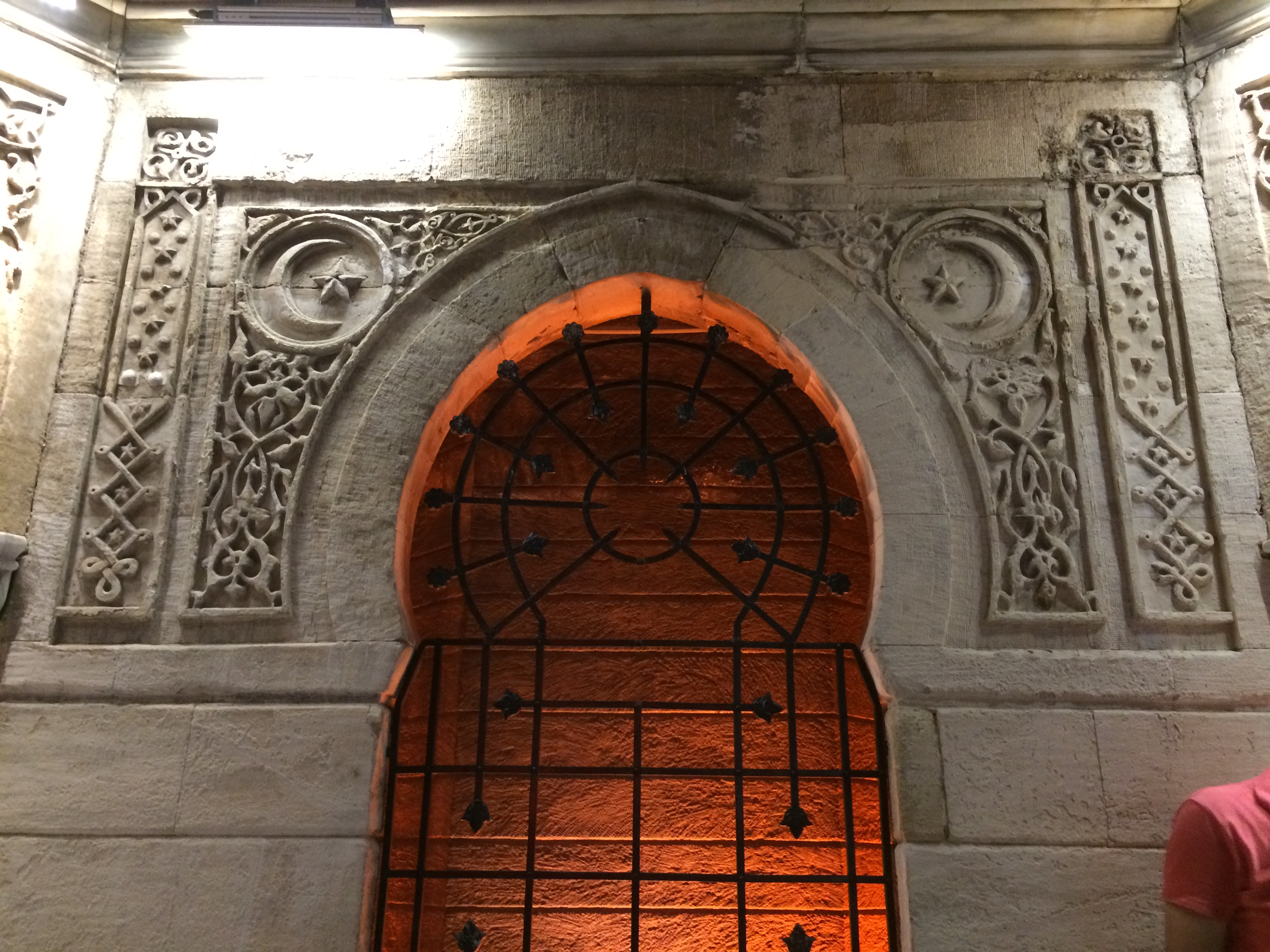 İzmir clock watch details